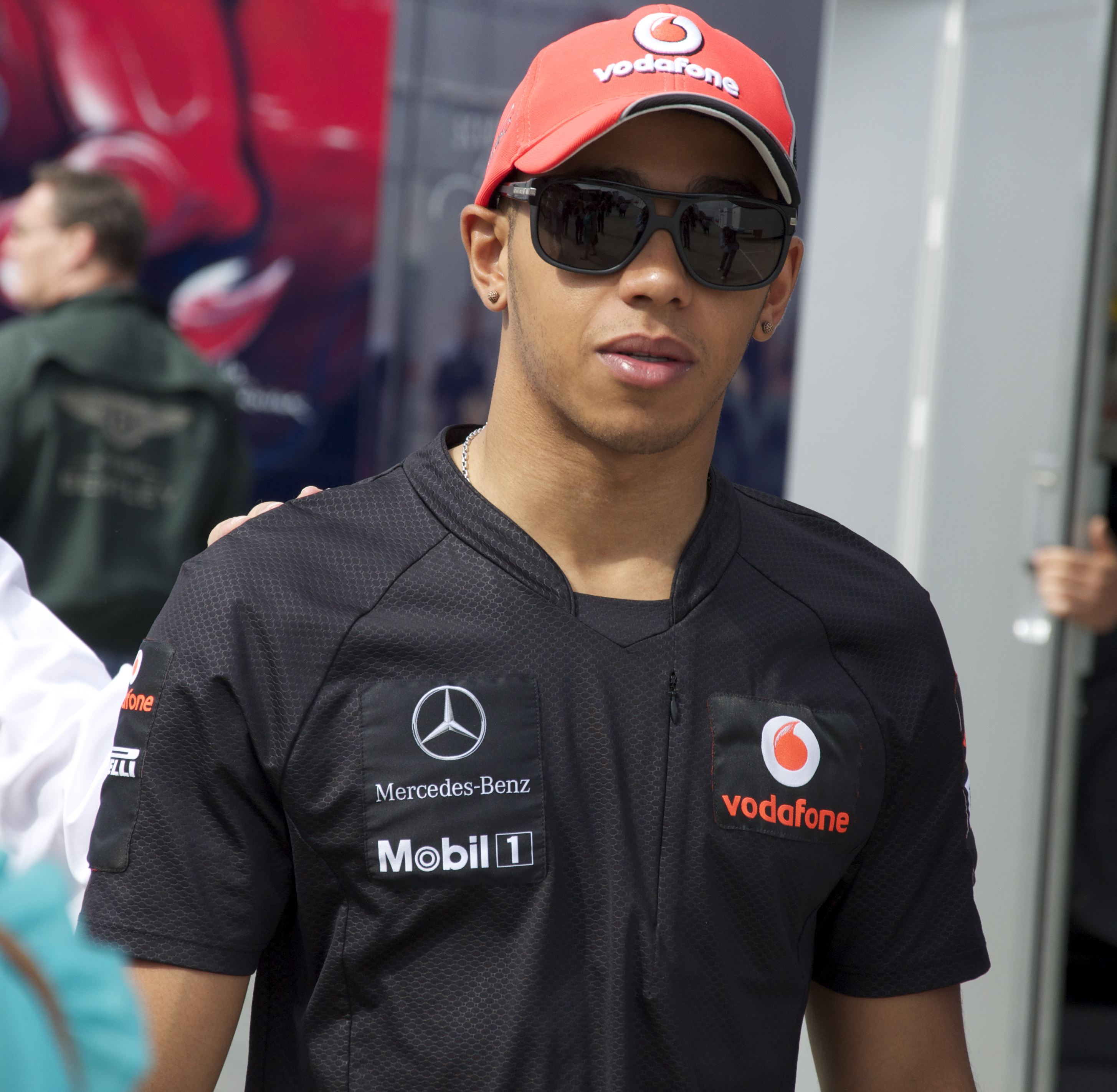 Before the Silverstone Grand Prix